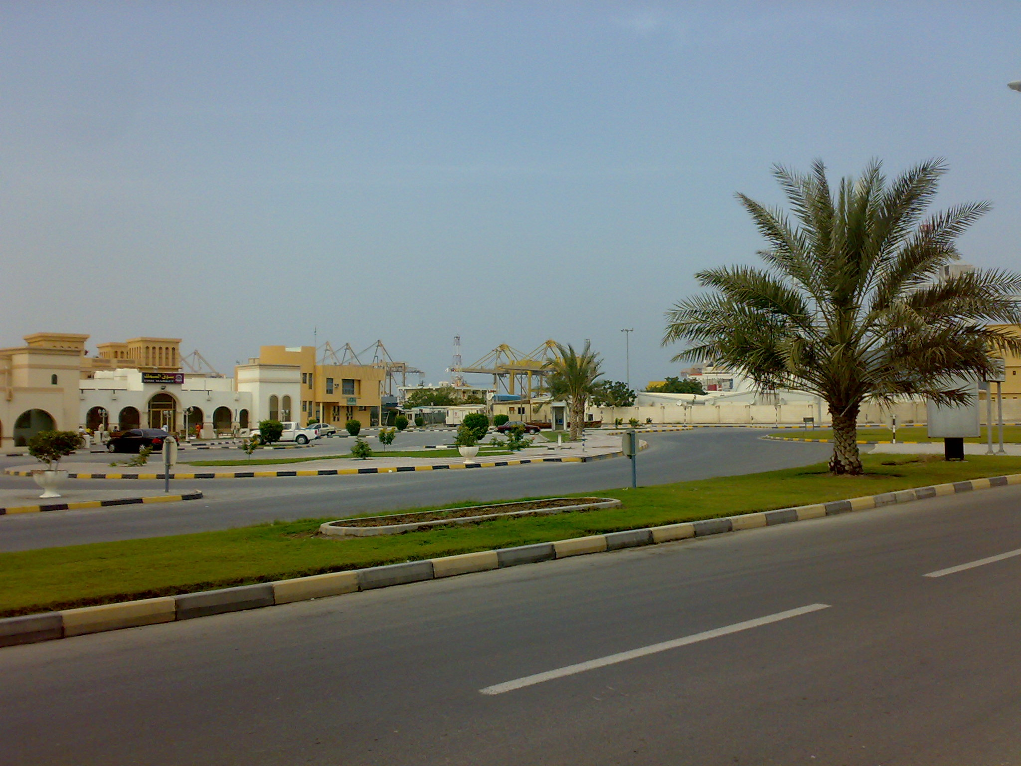 Khor Fakkan Port, city of Khor Fakkan, east coast of UAE.